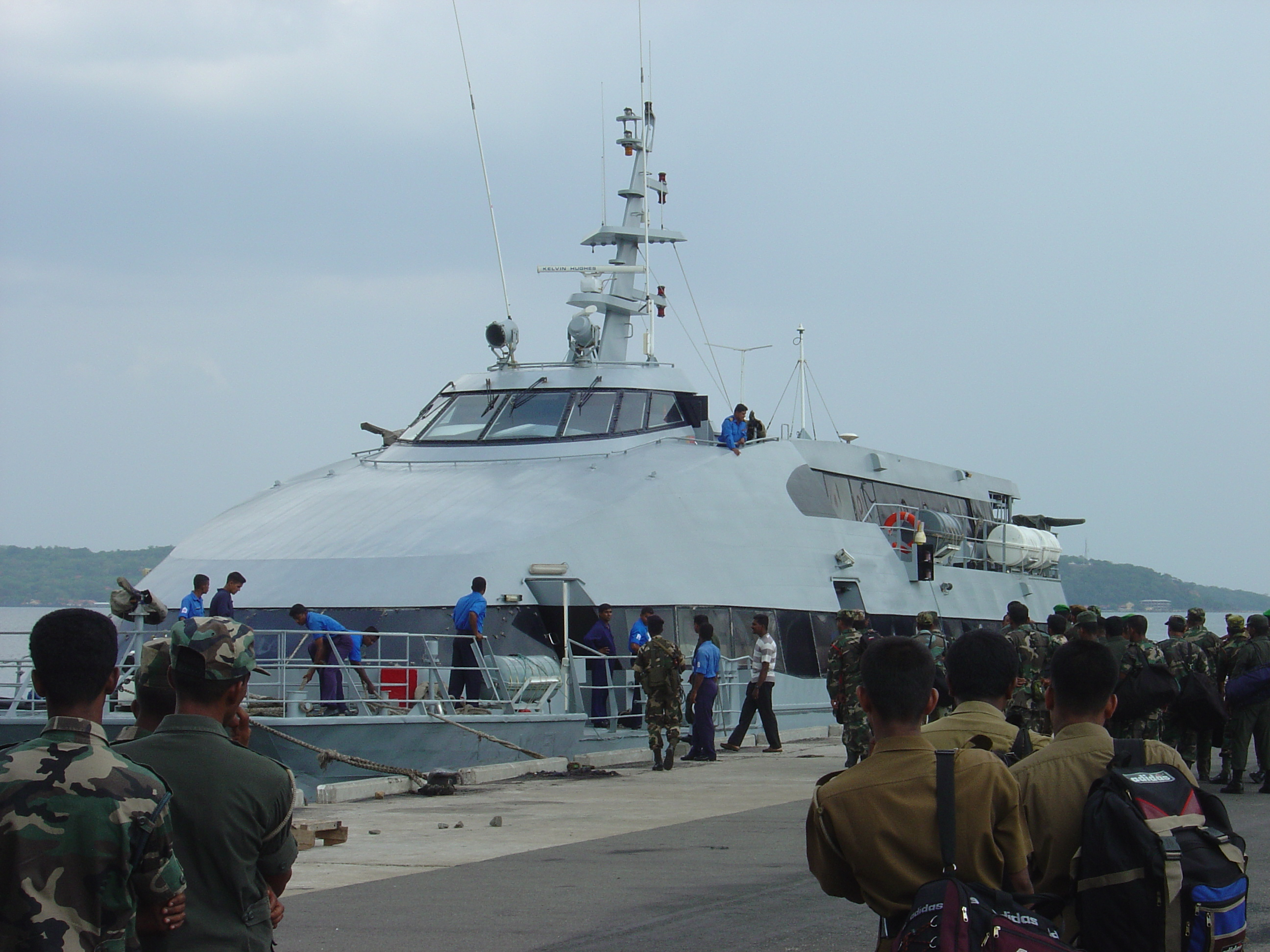 The picture is of a Sri Lanka troop transport catamaran, "Kvaerner Fjellstrand" type, taken by me, Ulf Larsen, in Trincomalee in August 2004